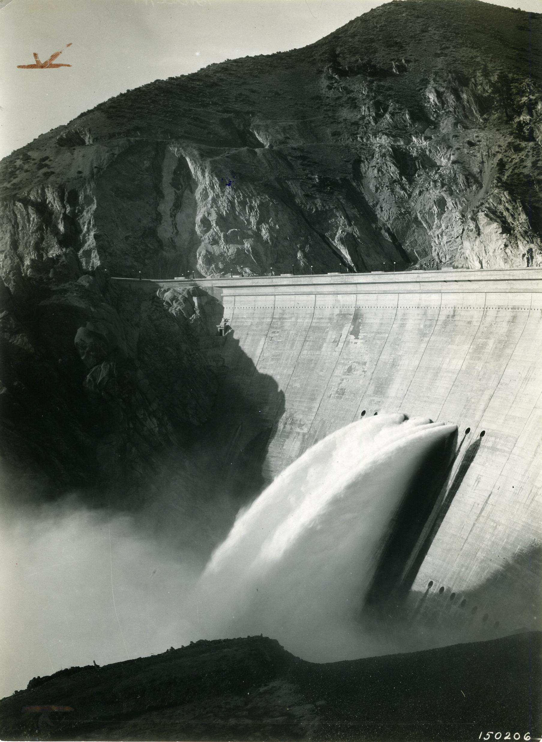 Image Title: Arrowrock Dam Date: July 17, 1938 Place: Boise River, 13 miles (21 km) east of Boise, Idaho Description/Caption: 150206. On verso, "No. 150206 Arrowrock dam, Boise National Forests, Idaho." Medium: black and white photograph Photographer/Maker: E.S. Shipp, U.S. Forest Service Cite as: ID-A-0278, Restrictions: There are no known U.S. copyright restrictions on this image. While the digital image is freely available, it is requested that be credited as its source. For higher quality reproductions of the original physical version contact restrictions may apply.